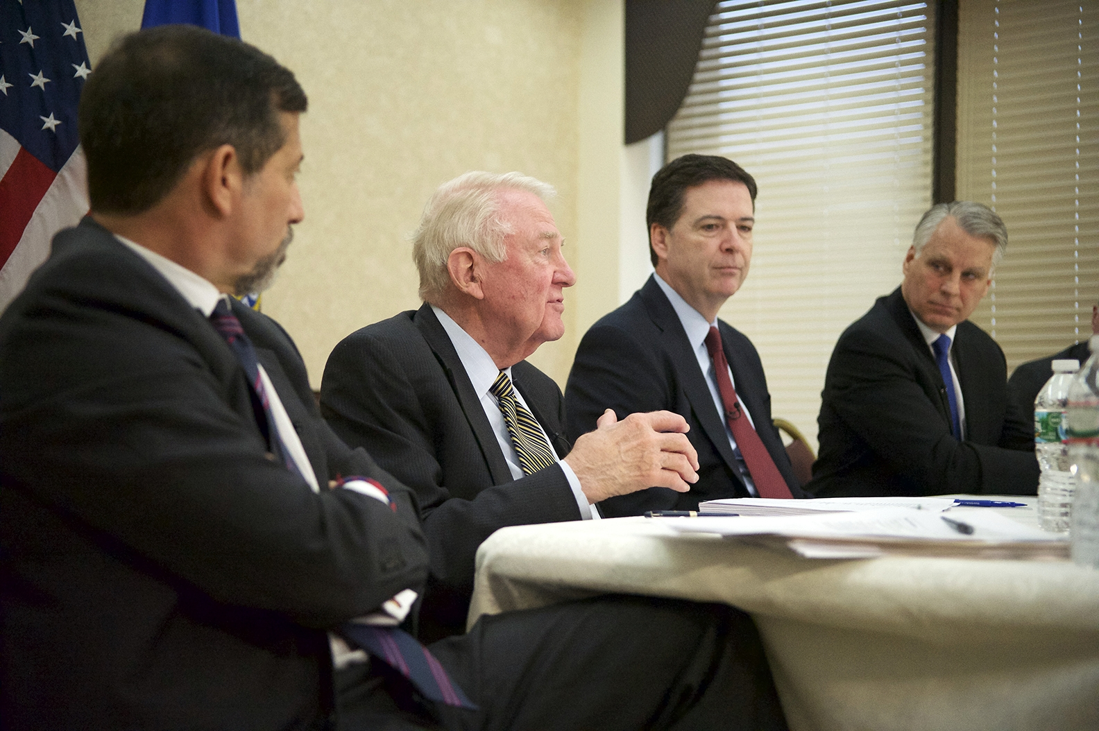 Director Comey listens as former Attorney General Edwin Meese discusses the findings of the 9/11 Review Commission. Meese, along with Georgetown University professor Bruce Hoffman (left) and former Congressman Tim Roemer (right) comprised the commission